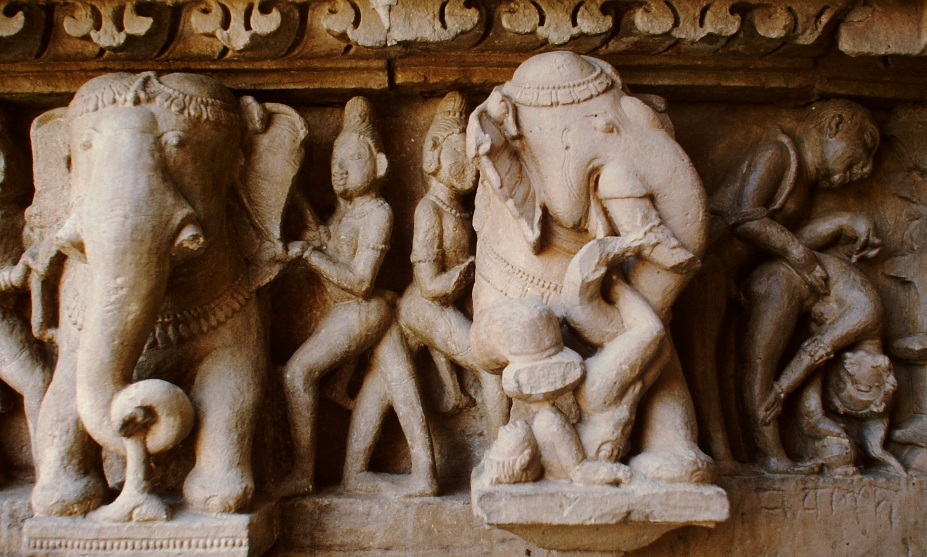 Khajuraho, Lakshmana Temple, relief with elefants